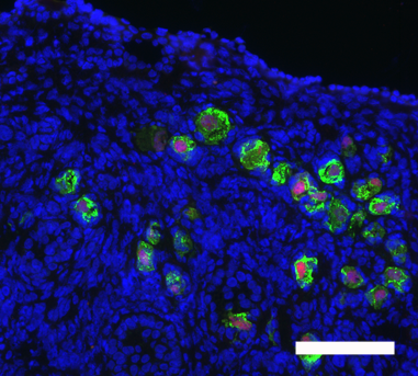 Figure 3. Gradation of germ cell maturation of the Mammalian Ovary. Follicular oocytes. H._ Oogonia in the inner cortex differentiated into oocytes. Germ cell markers. Follicular oocytes expressed cytoplasmic VASA (green) and nuclear OCT3/4 (red). Nuclei were counterstained with DAPI (blue). Gestational age: 171 days. Bars=100 µm.